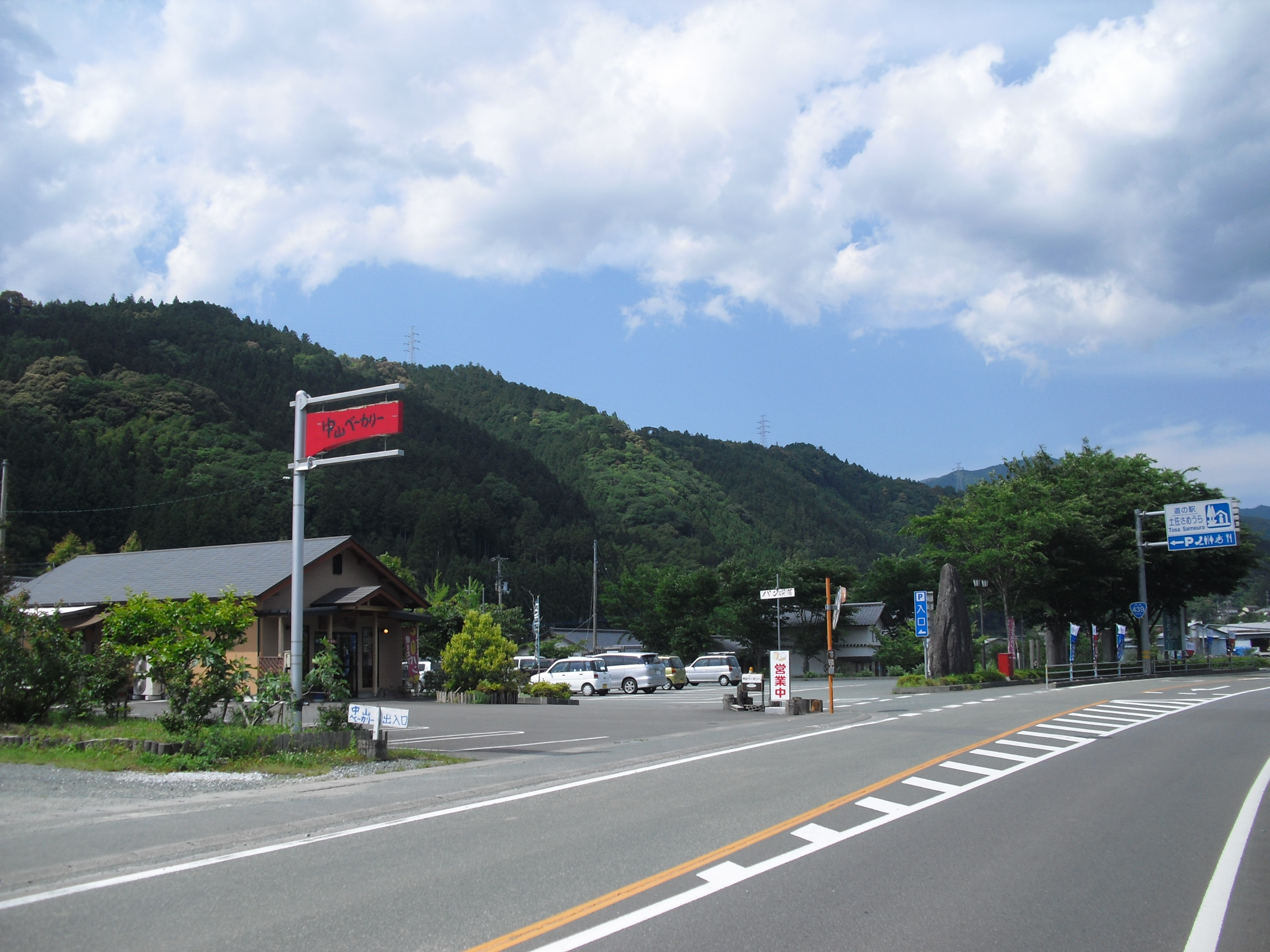 Roadside Station Tosa Sameura